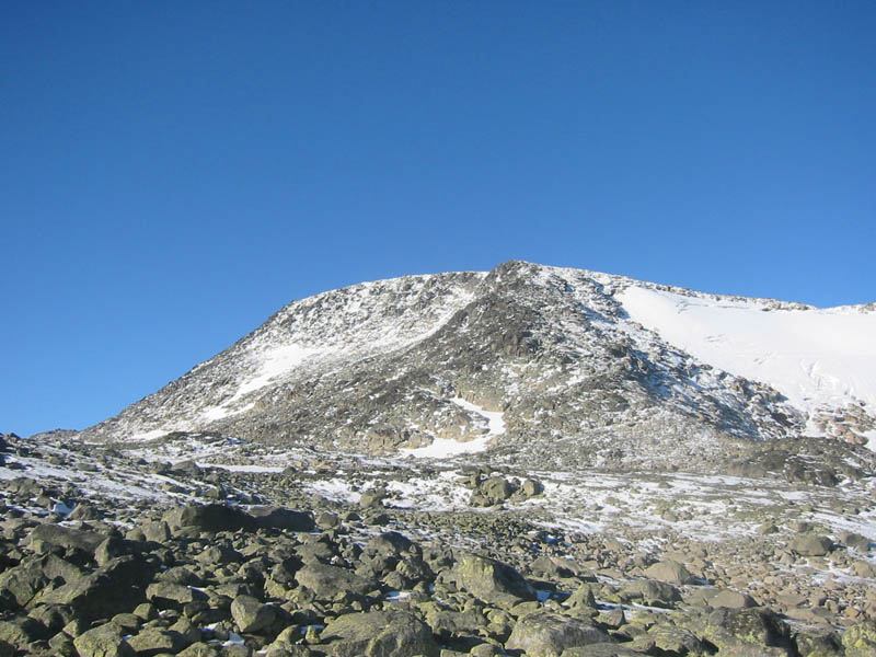 Østre (Eastern) Rasletind seen from Steindalen valley, October 5. 2005